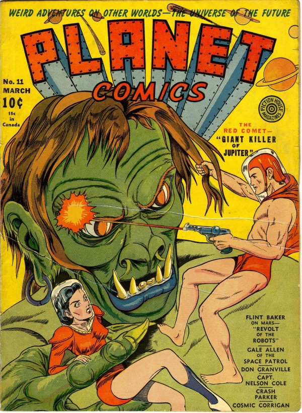 Cover scan of Planet Comics, No. 11, Fiction House, March 1941.